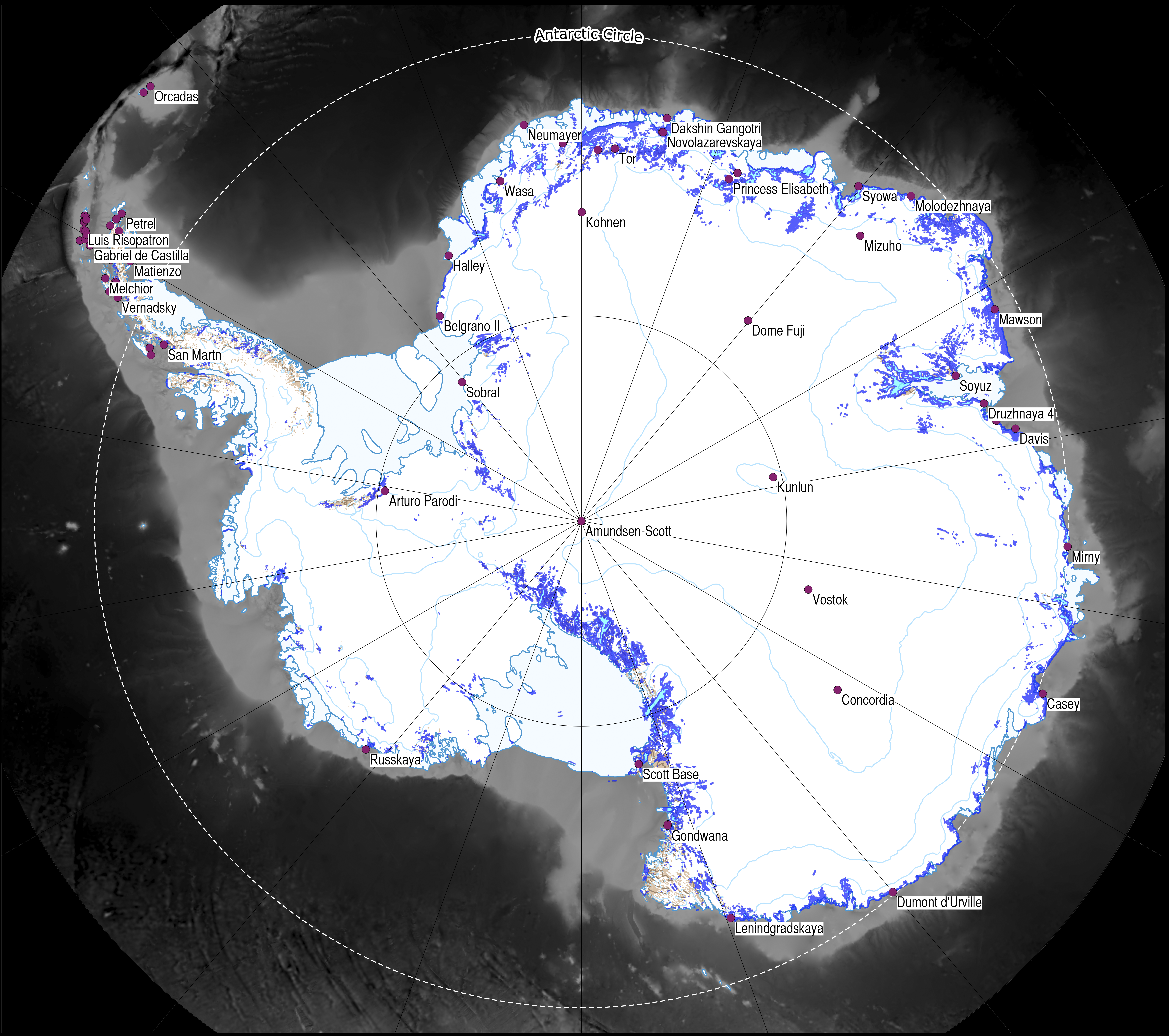 Areas of Blue Ice occurence in Antarctica